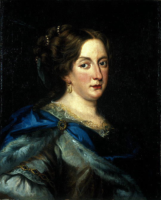 Christina of Sweden (1626-1689), Queen regnant of Sweden, Goths and Vandals, Grand Princess of Finland, and Duchess of Ingria, Estonia, Livonia and Karelia, from 1633 to 1654.